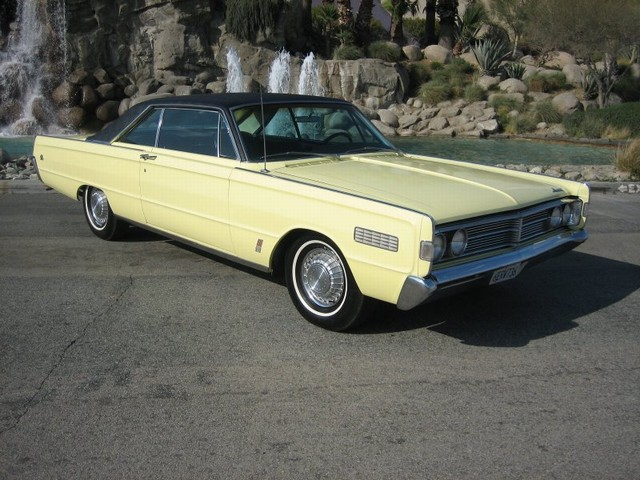 Photo of a 1966 Mercury S-55, exterior color Jamaican Yellow, interior Black, vinyl roof Black, standard wheel covers. Photo taken at Morongo Indian Reservation (near Banning, California)